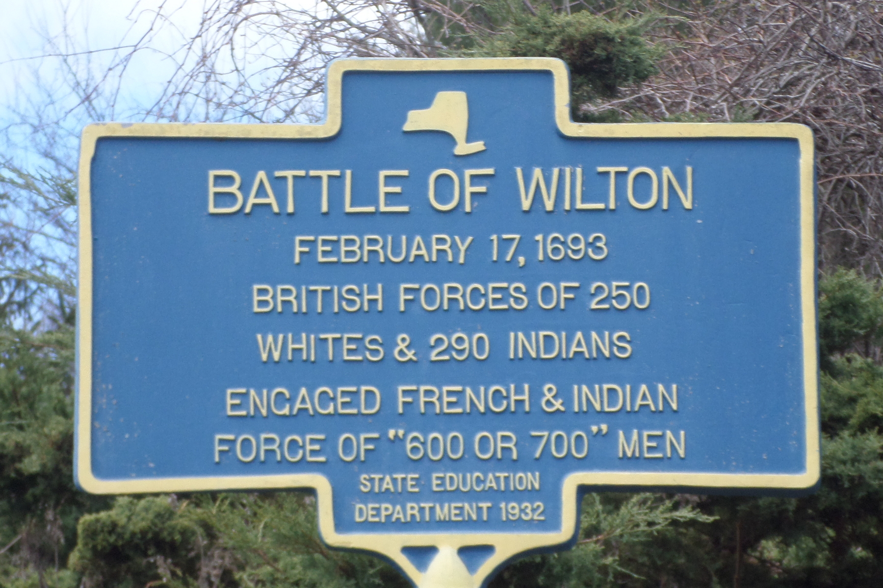 New York State historic marker: Battle of Wilton; Parkhurst Road, Wilton NY